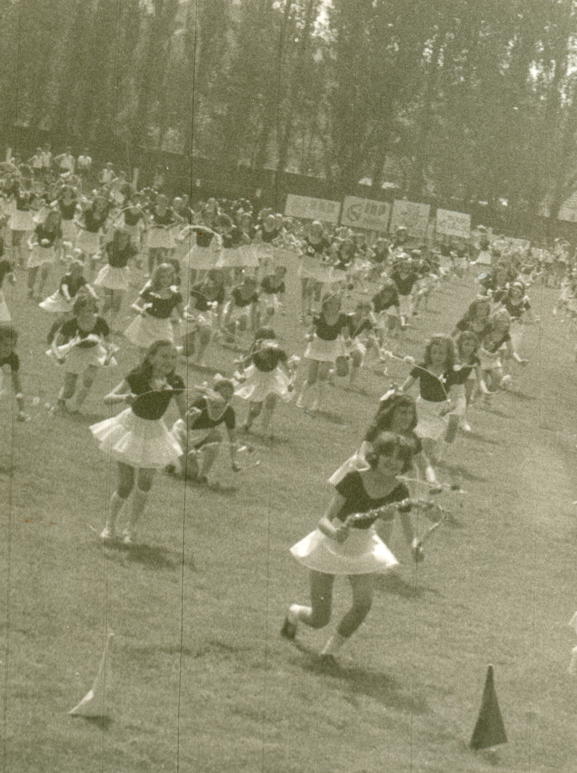 1976 Youth Day in Negotin Srpski (latinica): Slet u Negotinu povodom Dana mladosti 1976.